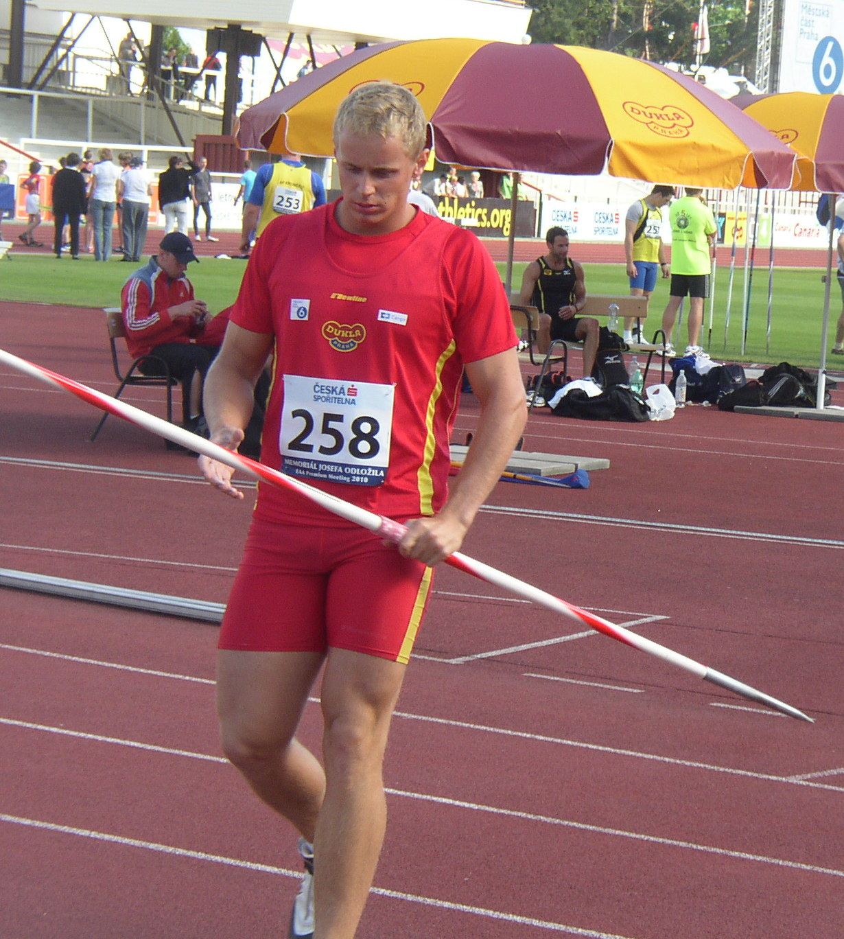 Athlete Jakub Vadlejch of the Czech Republic preparing for his attempt in javelin throw at 17th edition of the Josef Odložil Memorial (EAA Premium Meeting, Na Julisce Stadium, Prague, Czech Republic, 14 June 2010). Vadlejch won the competition with 77,56 m mark.